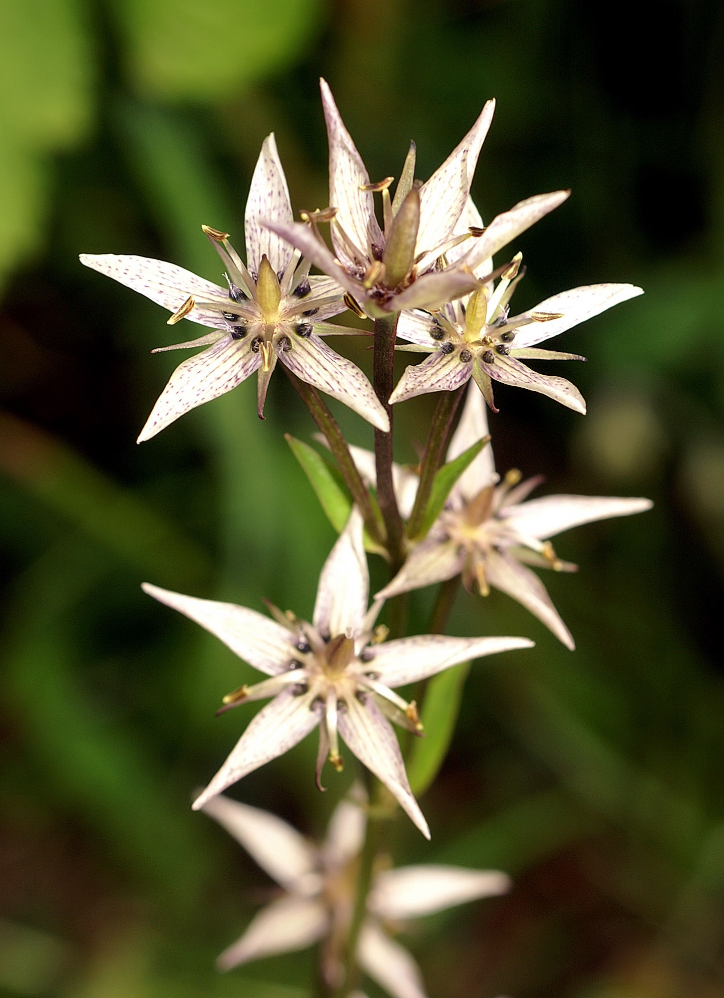 Swertia perennis